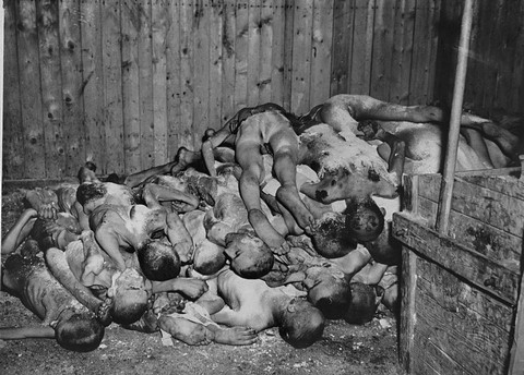 The bodies of prisoners lie stacked in a shed in the Ohrdruf concentration camp.